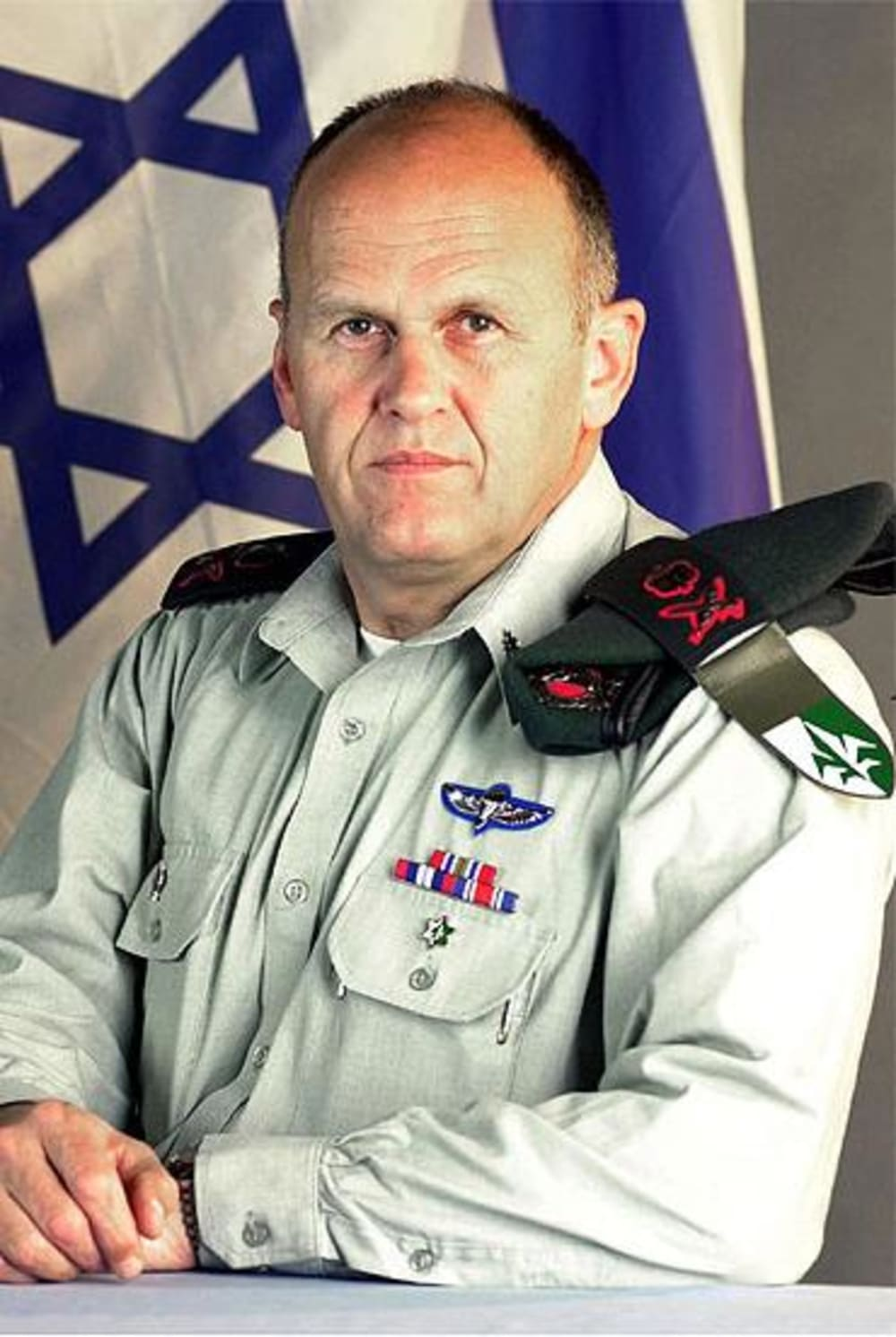 Aluf Aharon Ze'evi-Farkash of IDF